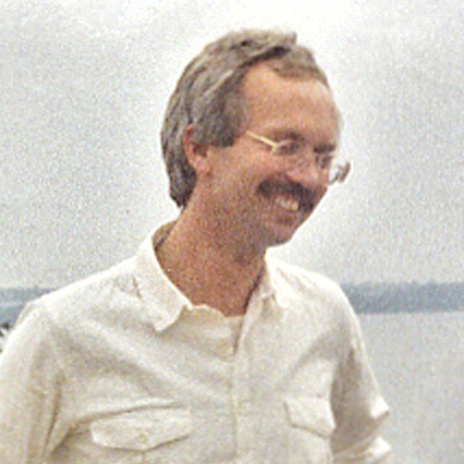 Eckehard W. Mielke (was with John Archibald Wheeler in front of lake in Holstein before the Hermann Weyl-Conference 1985 in Kiel, Germany)